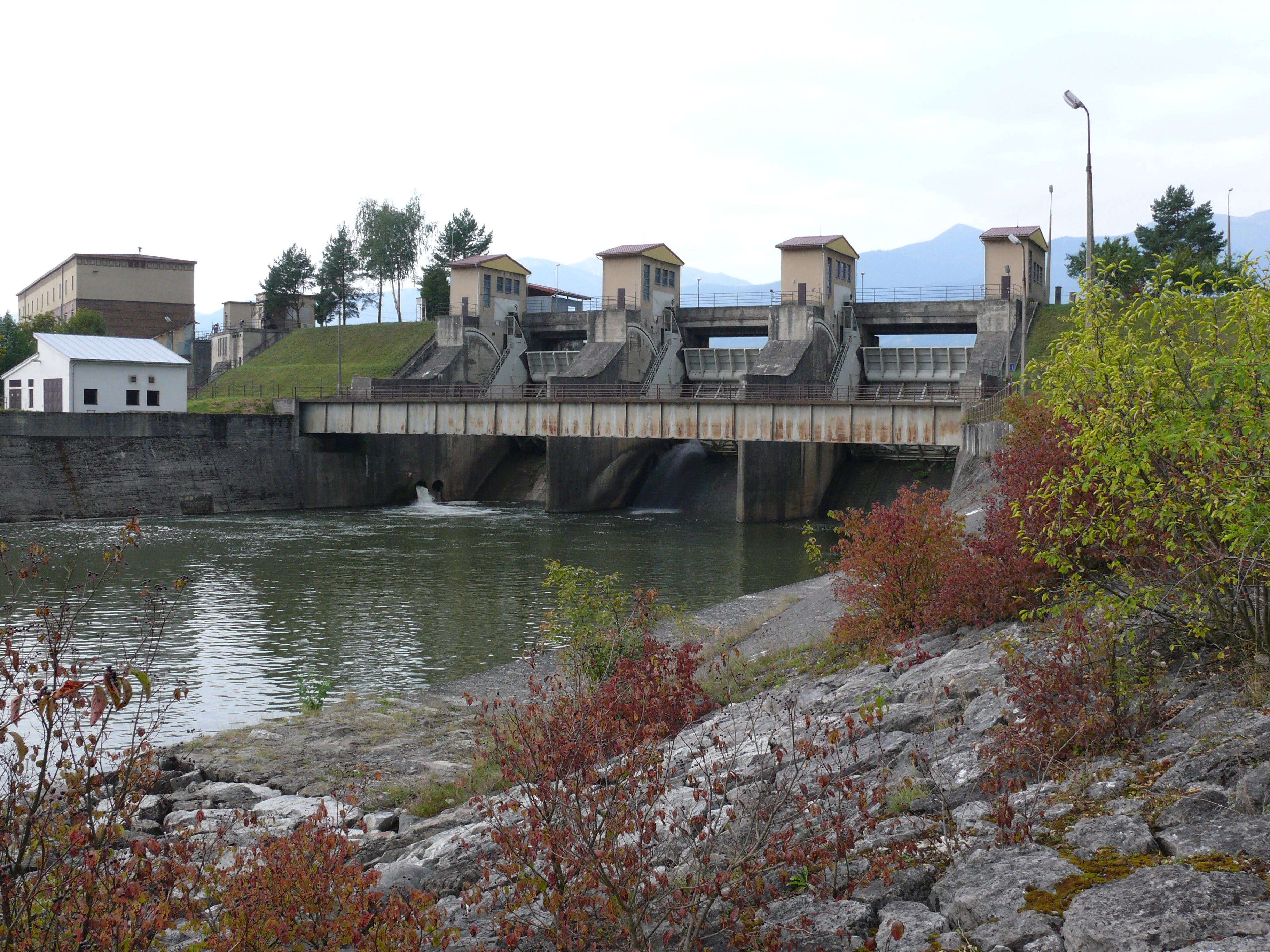 Hydroelectric power plant on river Váh, near village Krpeľany, Slovakia.